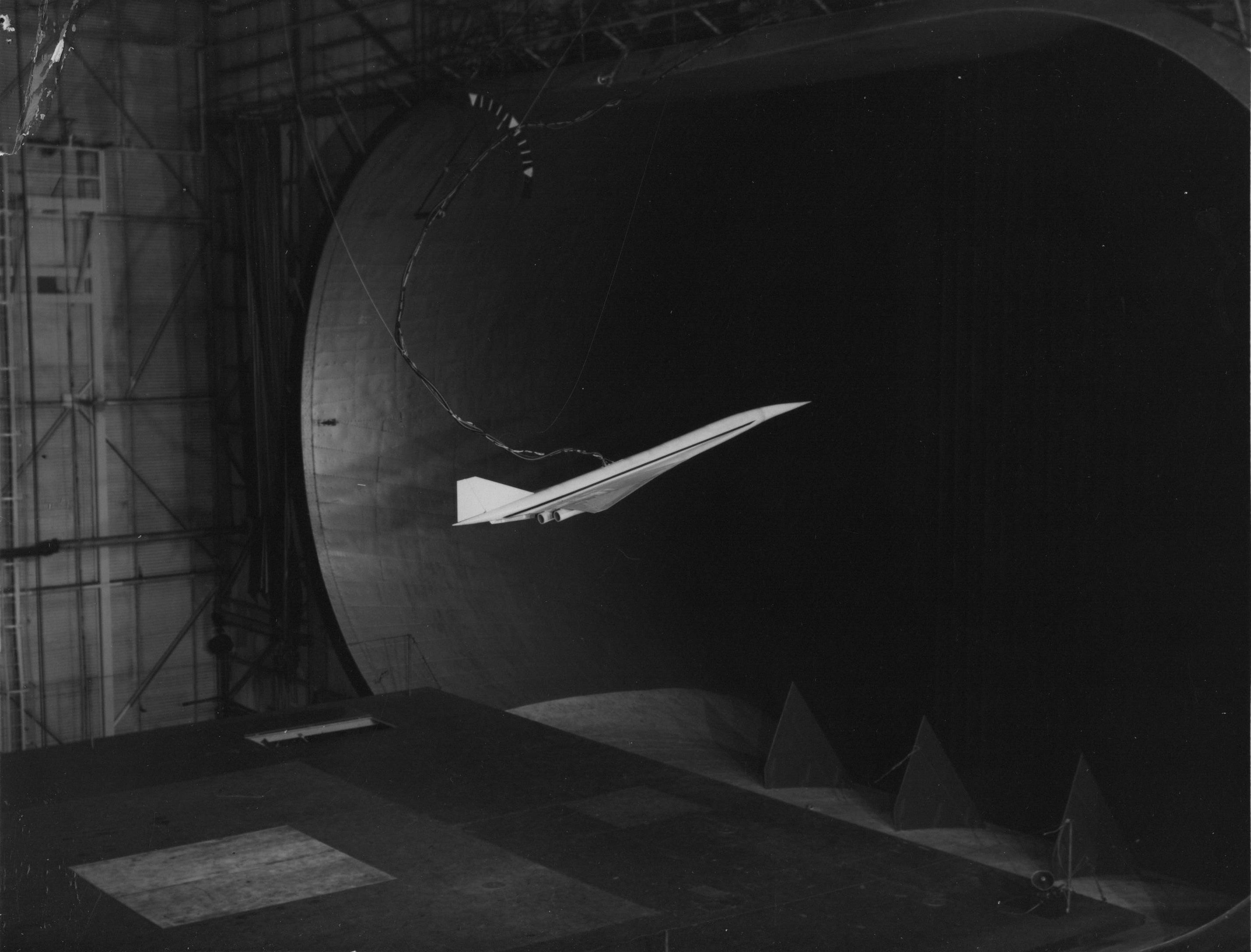 Lockheed L-2000-7 wind tunnel model